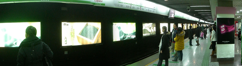 Lujiazui subway station paltform in Shanghai, China.